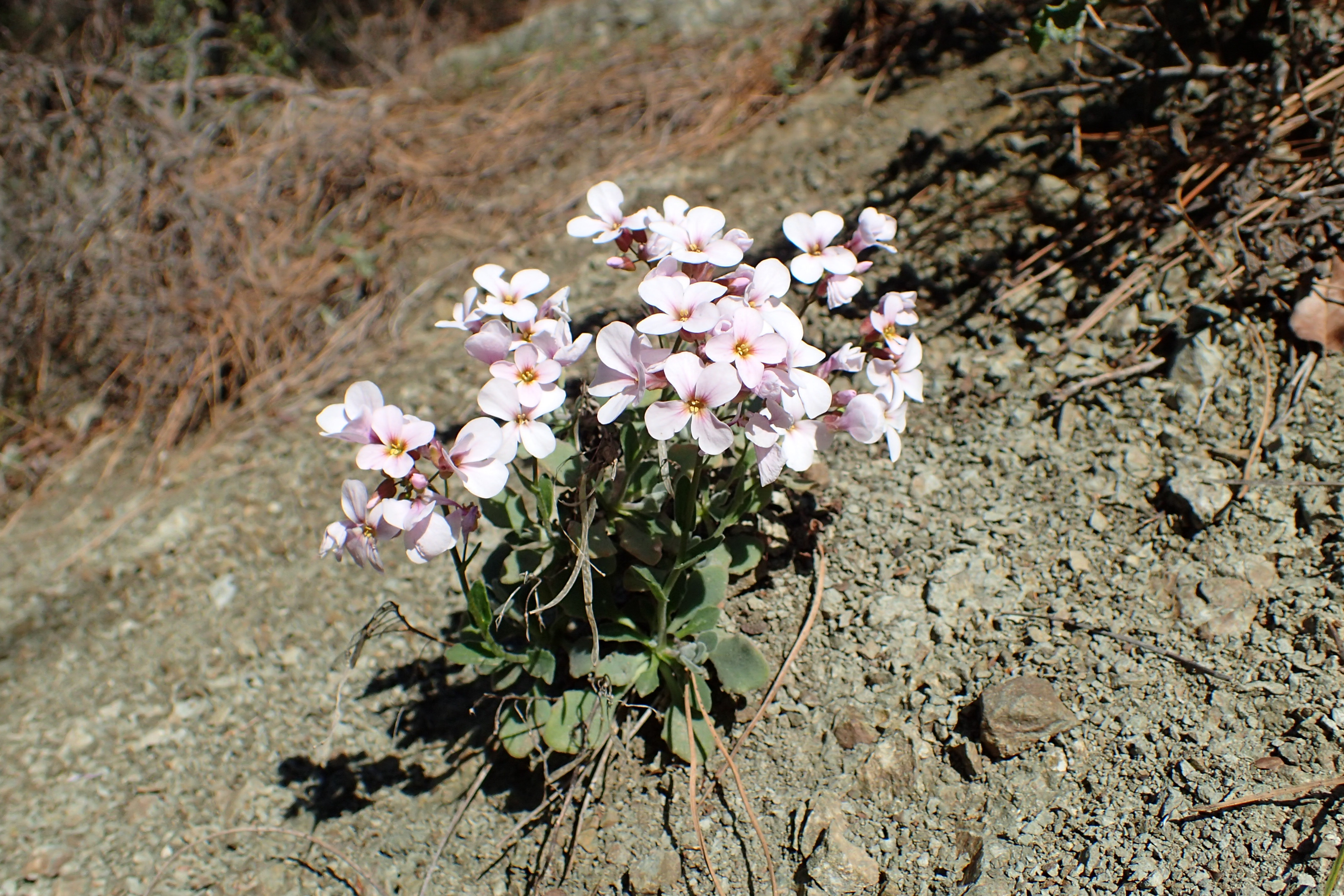 Arabis purpurea near Pano Platres, Cyprus